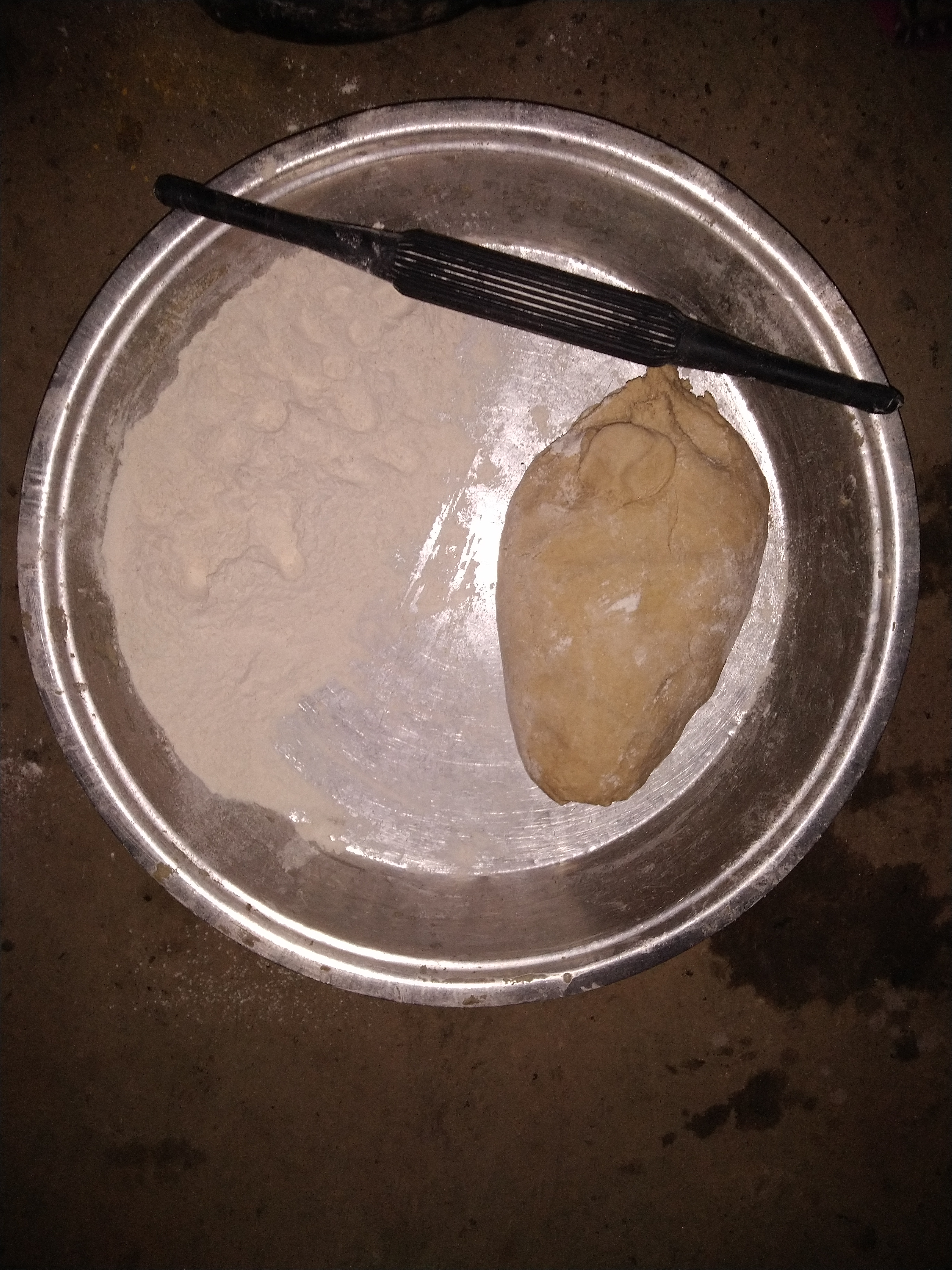 Wheat Dough in Maharashtrian home.